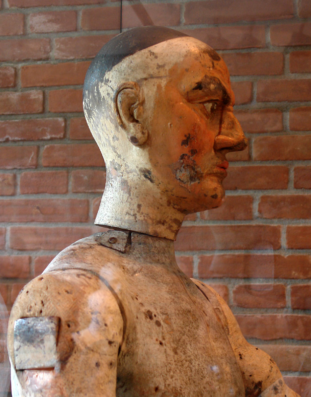 16th century Maximilian armour now exhibited in the Focke-Museum, the museum for art and cultural history of the state of Bremen. The armour belonged to the Complimentarius, a mechanical greeting-automaton that was installed from the early 17th to the early 19th century in the Schütting (the merchant guild headquarters) in Bremen.